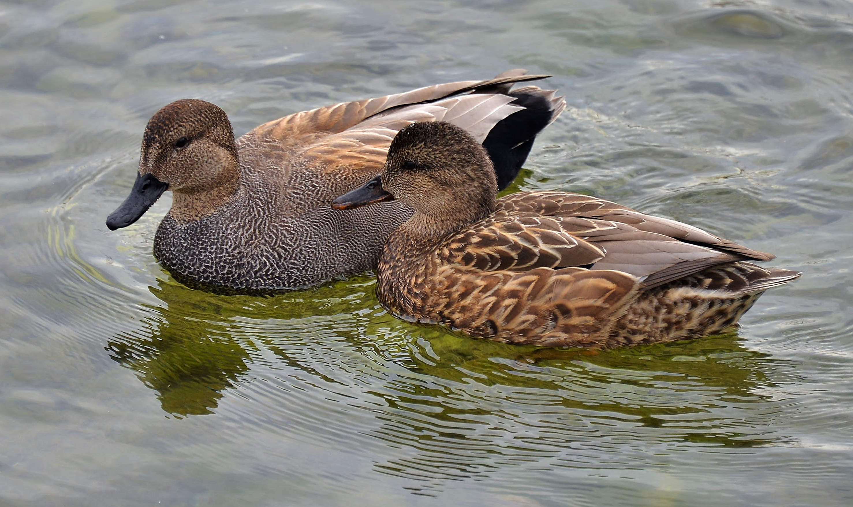 Male and female gadwalls (Anas strepera) in Amos Waites Park, Ontario Lake, Toronto